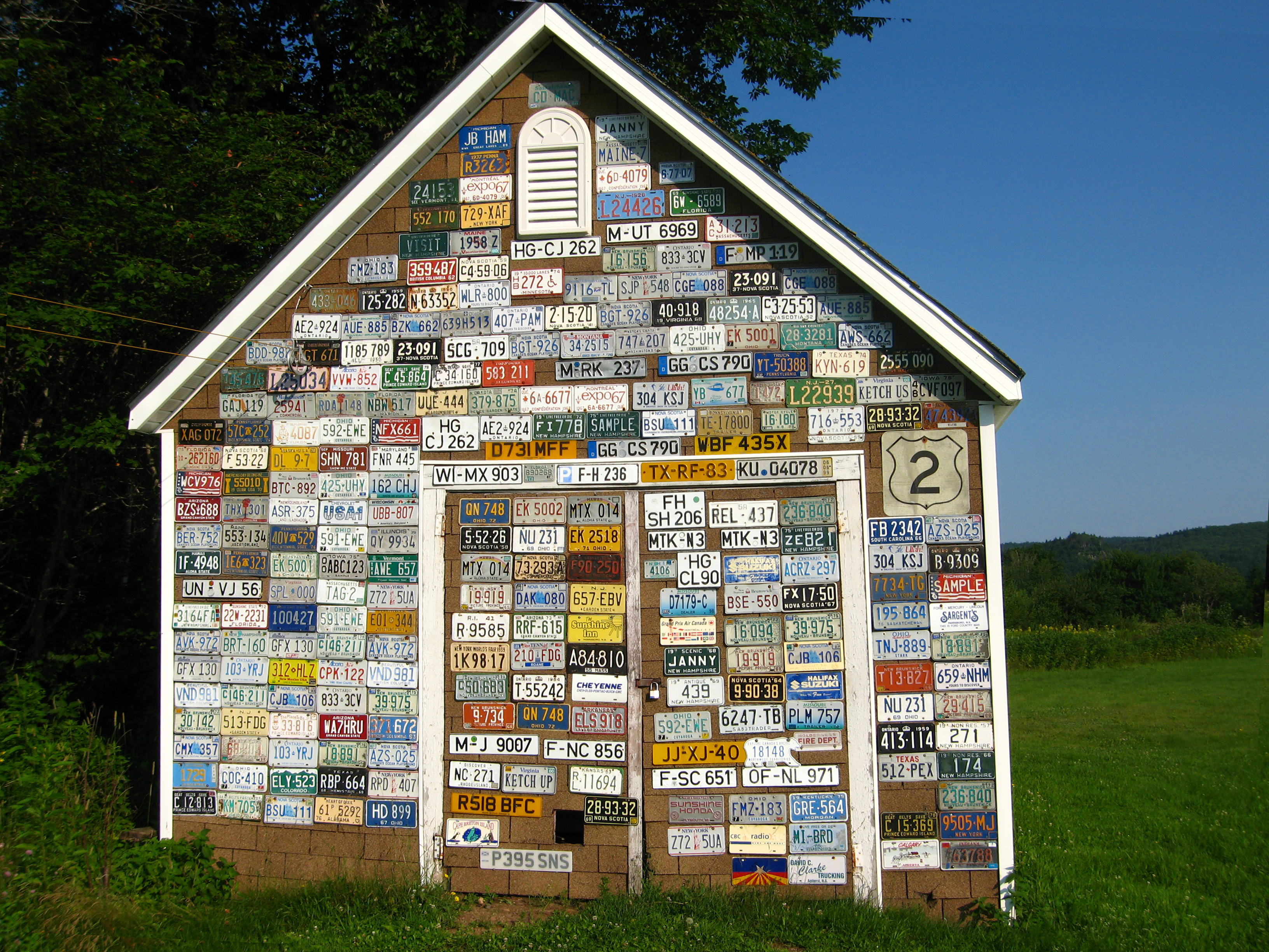 Photograph of a license plateen decorated shed near Parrsboro, Nova Scotiaen.